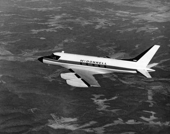 McDonnell Model 119 (aka Model 220) business jet during flight testing.